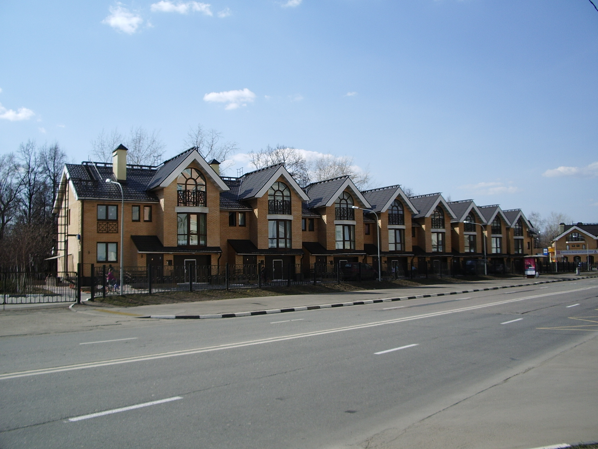 Moscow. Townhouses at Berezovy Roshchi passage.